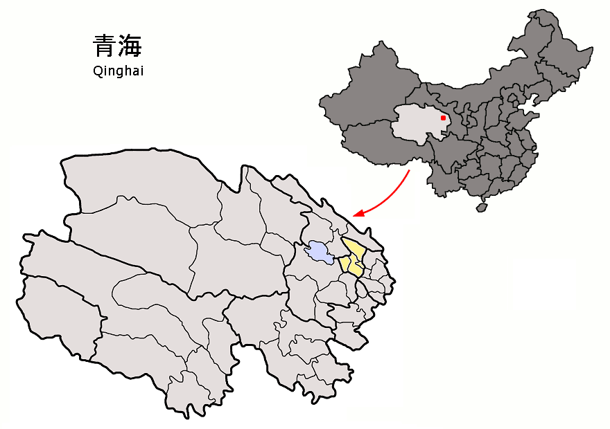 Location of Xining Prefecture (yellow) within Qinghai province of China Map drawn in september 2007 using various sources, mainly : Qinghai province administrative regions GIS data: 1:1M, County level, 1990 Qinghai Counties map from "Plateau Perspectives" (the limits of some county-level subdivisions may not be accurate)